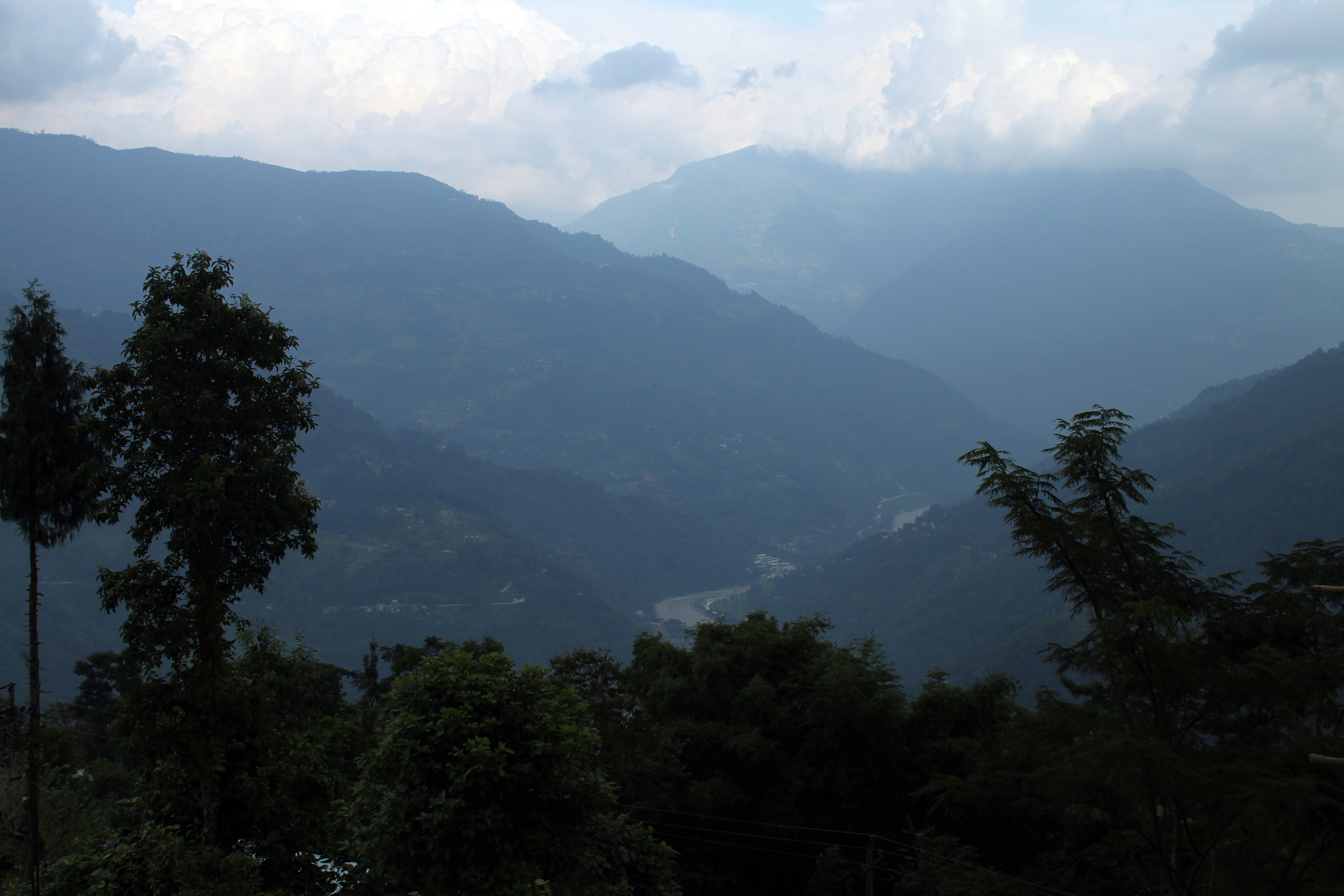 Misty Himalayan foothills